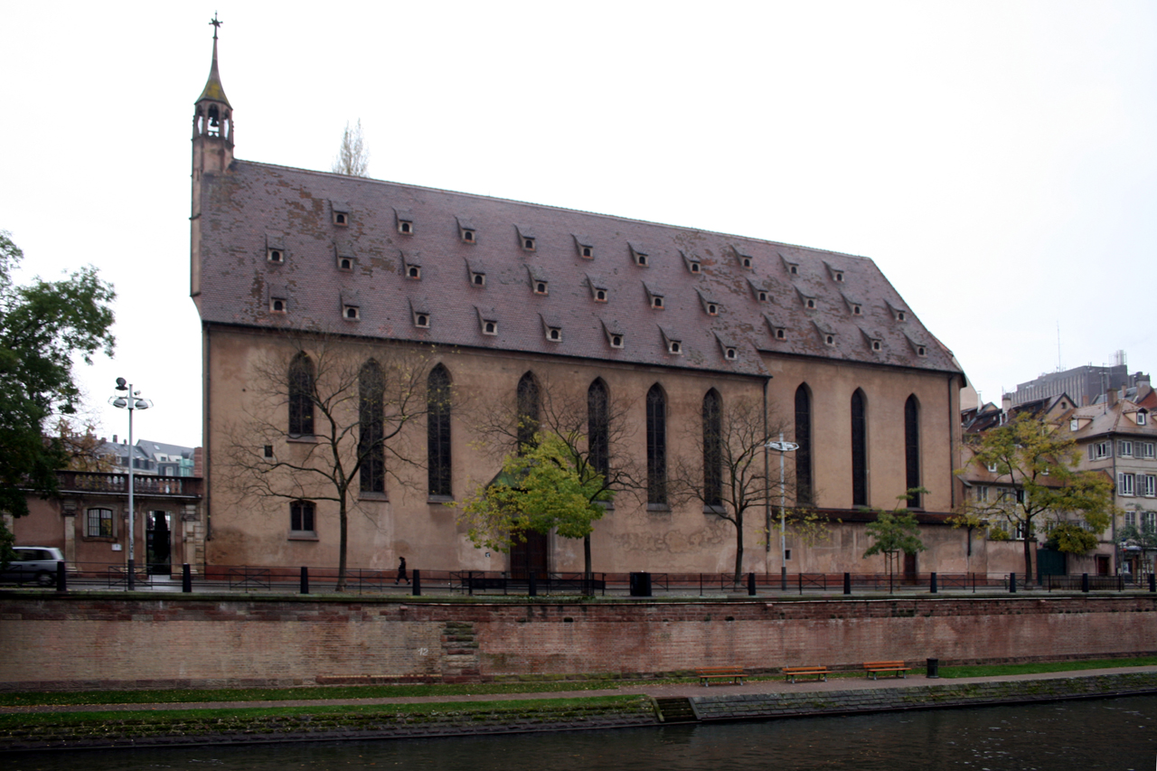 Strasbourg - Eglise Saint-Jean